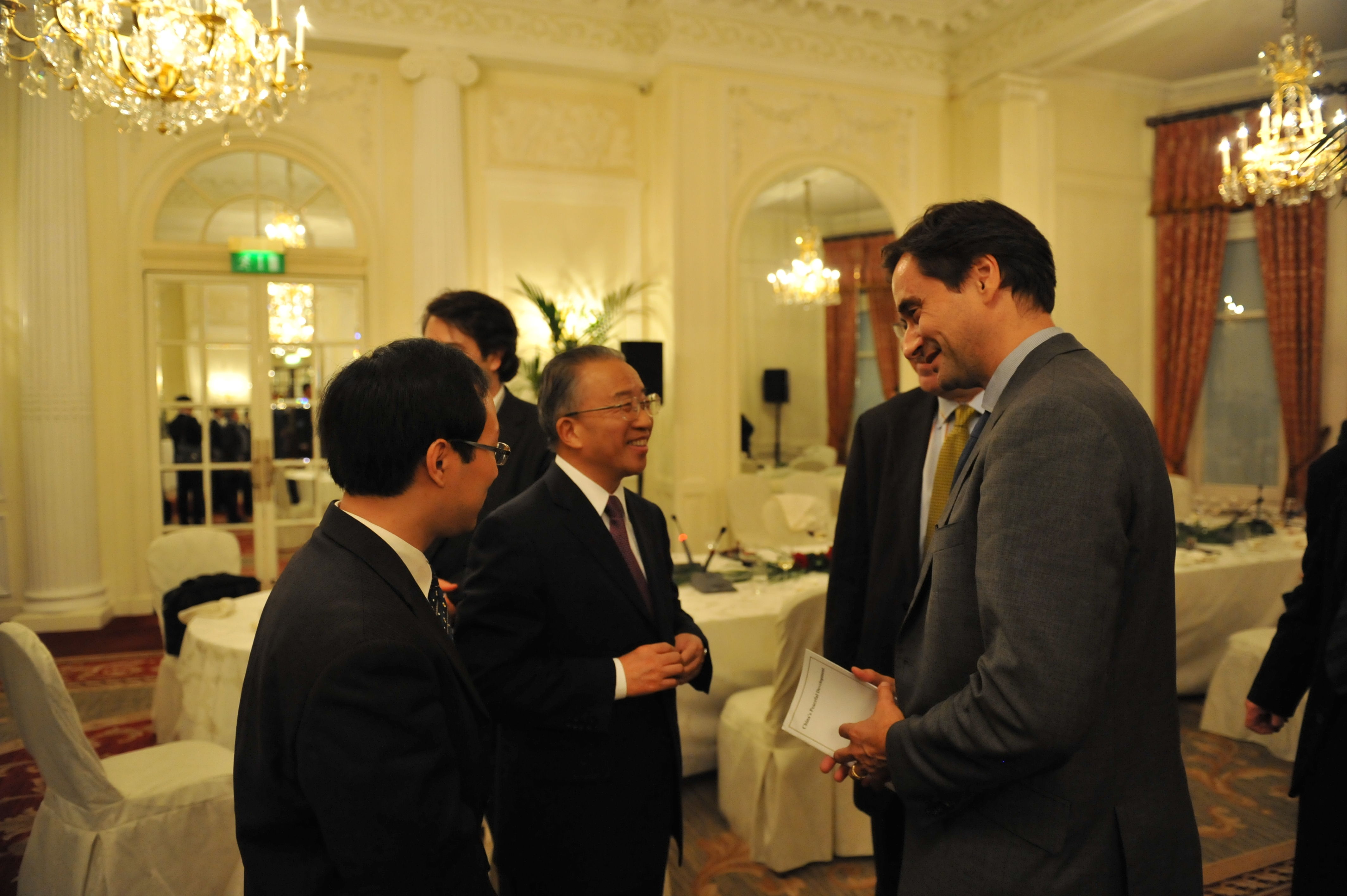 During a visit to London on 26-27 September, China's State Councillor Dai Bingguo met with UK Foreign Secretary William Hague for the third annual UK-China Strategic Dialogue. As part of this visit, State Councillor Dai met with Chatham House's Director Dr Robin Niblett.